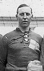 Swedish footballer Bertil Nordenskjöld at the Olympics, 1920. In lineup before game against Greece, 28th of August.